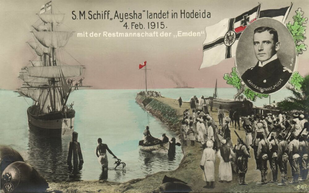 German schooner Ayesha under the command of Captain von Mücke arriving at the Yemeni port of Hodeidah on 9 January 1915. Contemporary German postcard. (Actually the “Ayesha” was sunk in the Indian Ocean weeks before and the steamboat “Choising” was used for the route to Hodeida.)